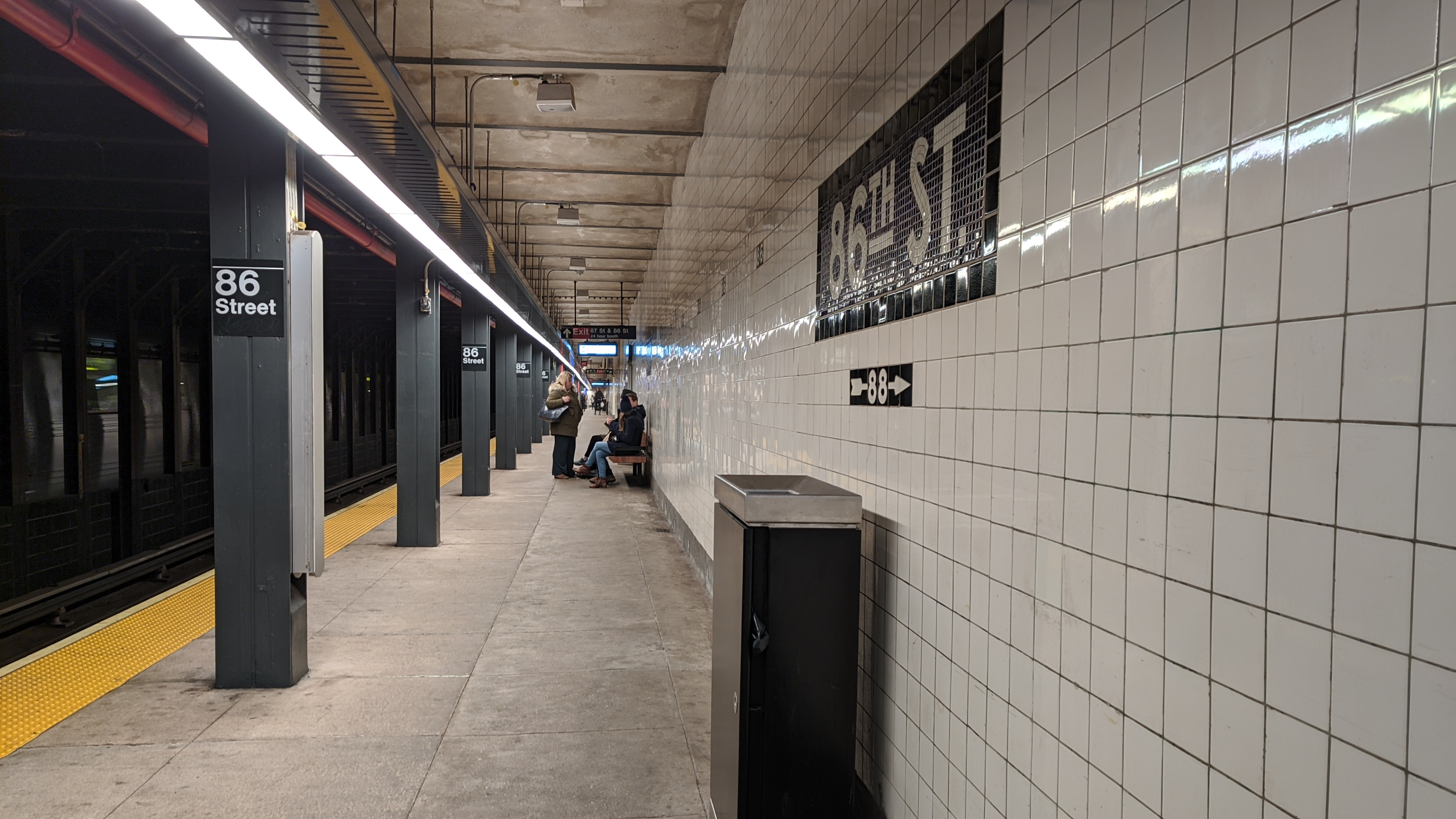 Downtown platform at 86th Street on the IND 8th Avenue Line.